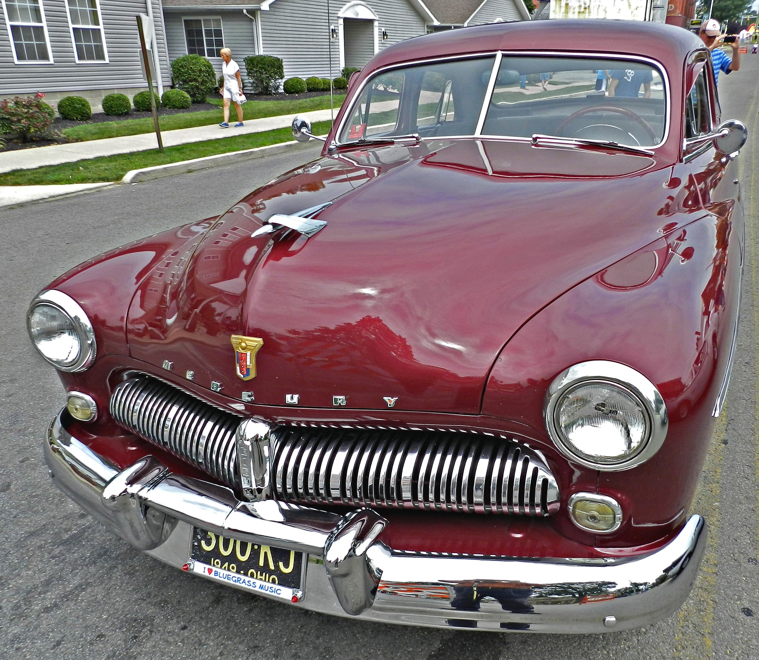 When I went to the 44th Annual; Car and Truck show in Greenfield, Ohio today, this was the first car I saw. And it was my favorite.